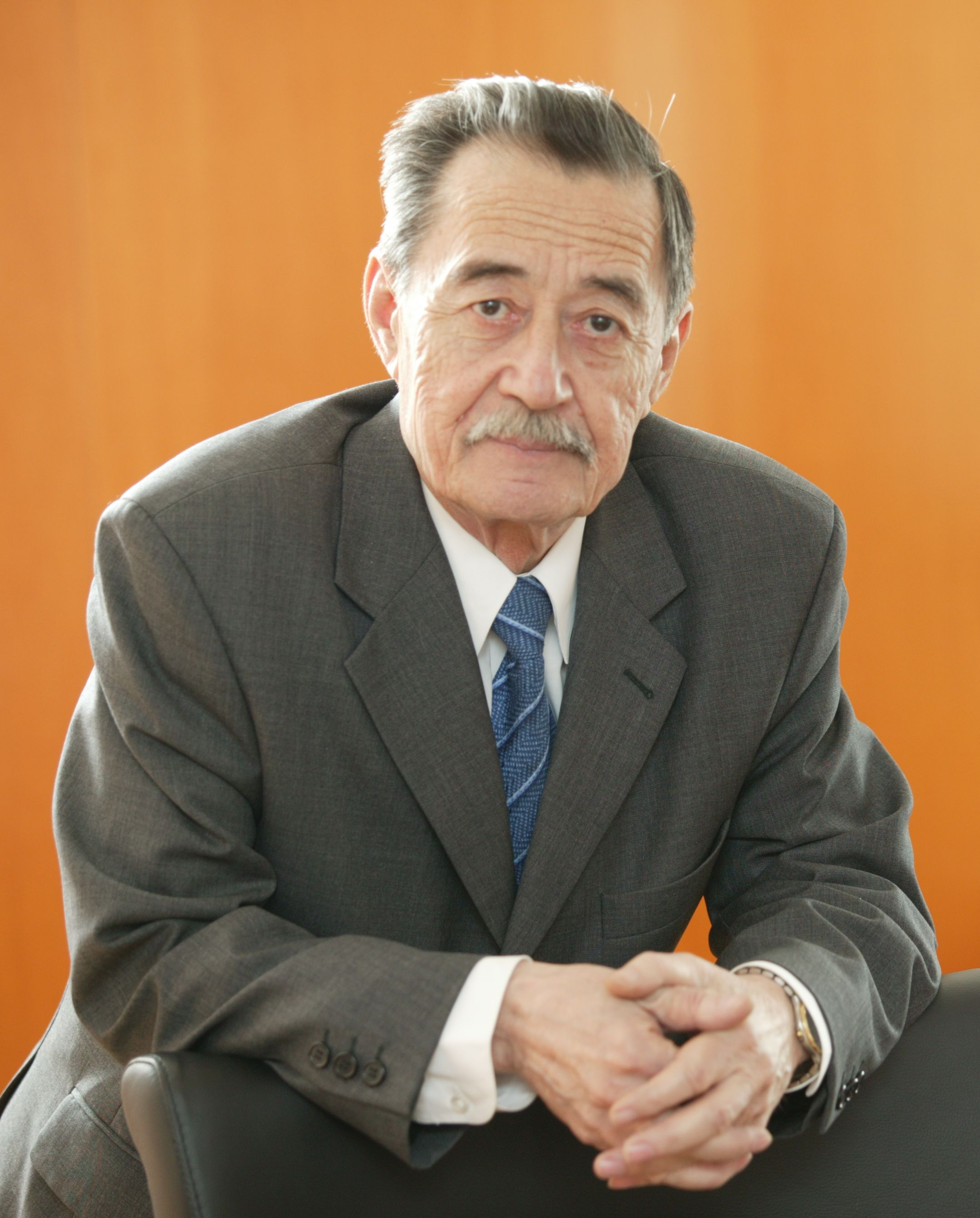 Daulet Sembayev, financier of Kazakhstan